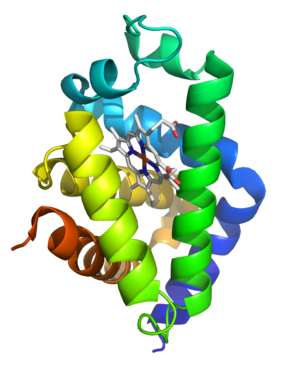 Model of neuroglobin, rendered from data in PDB entry 1q1f using PyMol.